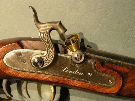 Caplock mechanism